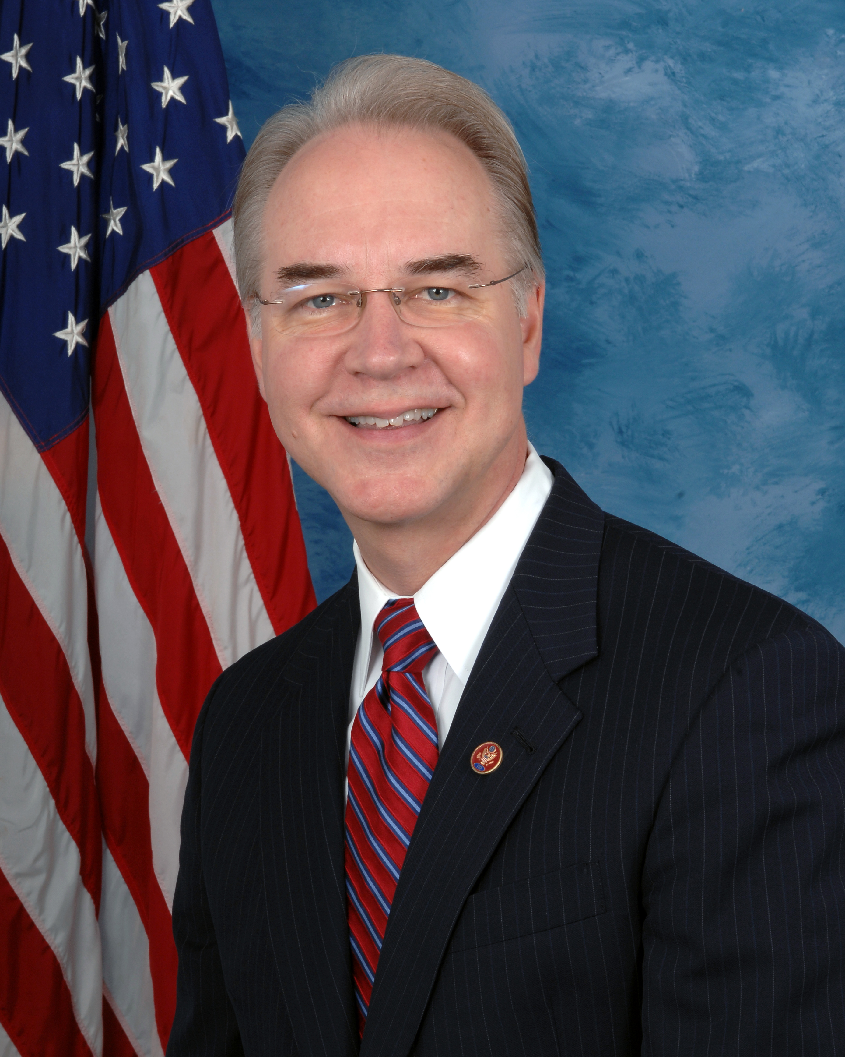 Tom Price (US politician), member of the United States House of Representatives.